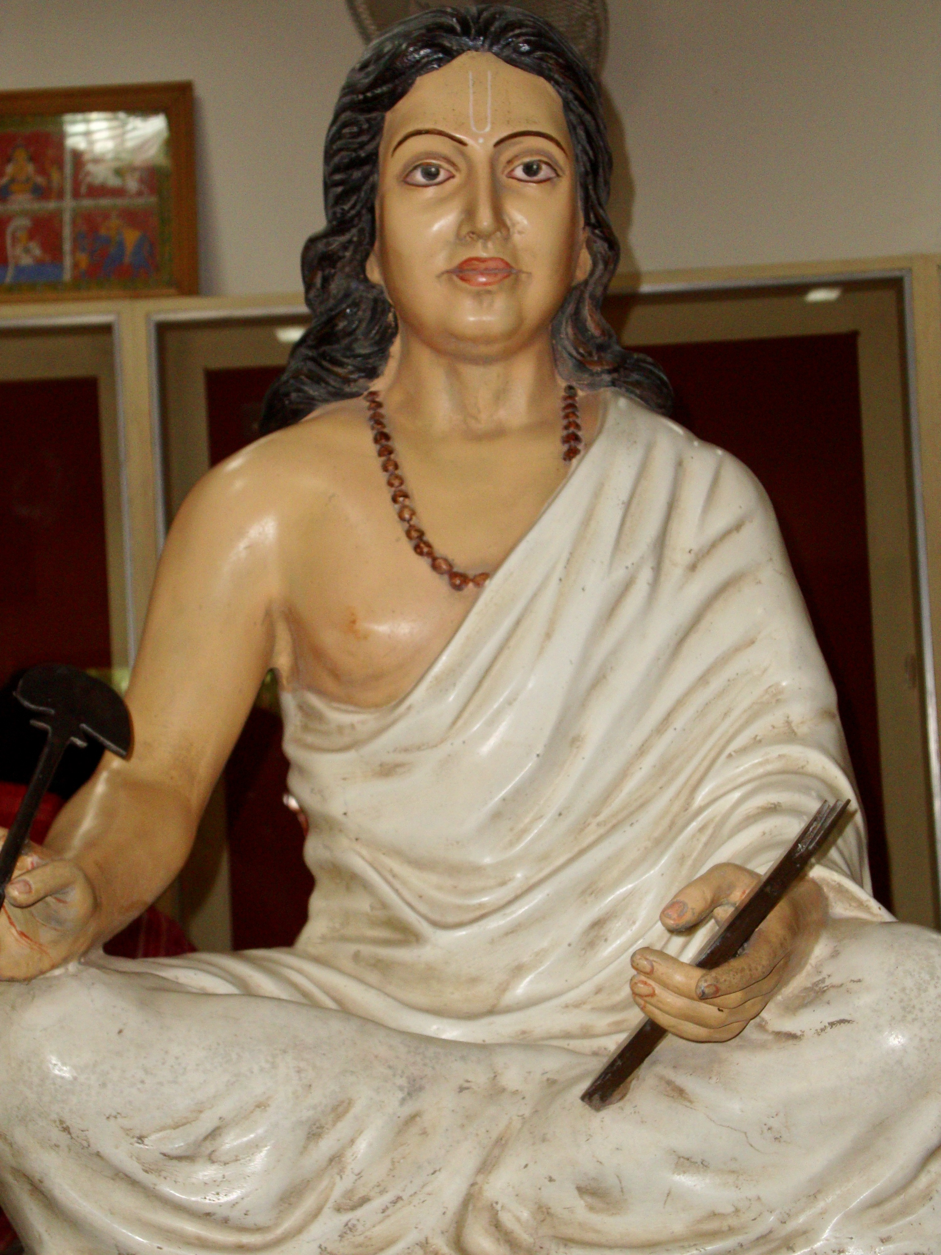 Idol of 11th c. Sanskrit poet Jayadeba at his birthplace Kendubilwa in Odisha, India.